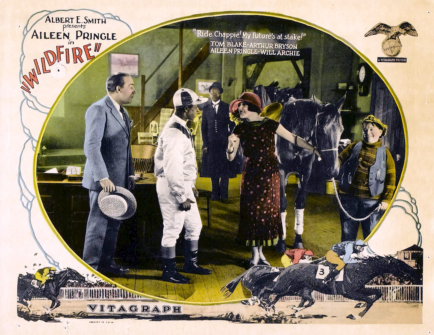 Lobby card for the American drama film Wildfire (1925) with Tom Blake, Arthur Bryson, Aileen Pringle, and Will Archie.